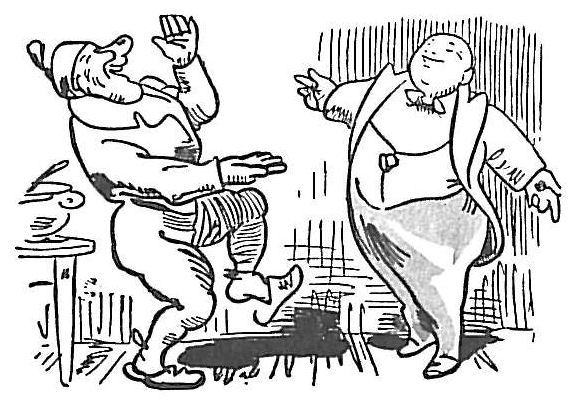 drawing by Wilhelm Busch